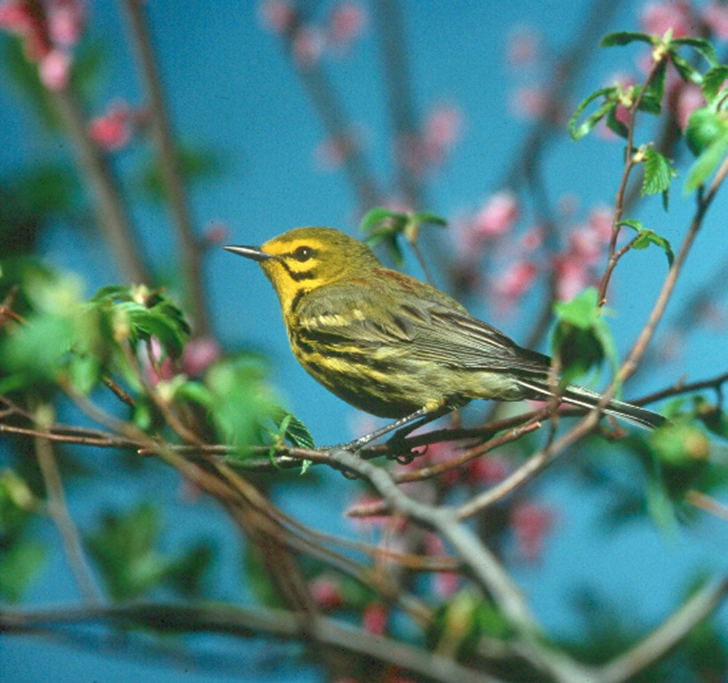 Prairie Warbler (Dendroica discolor)